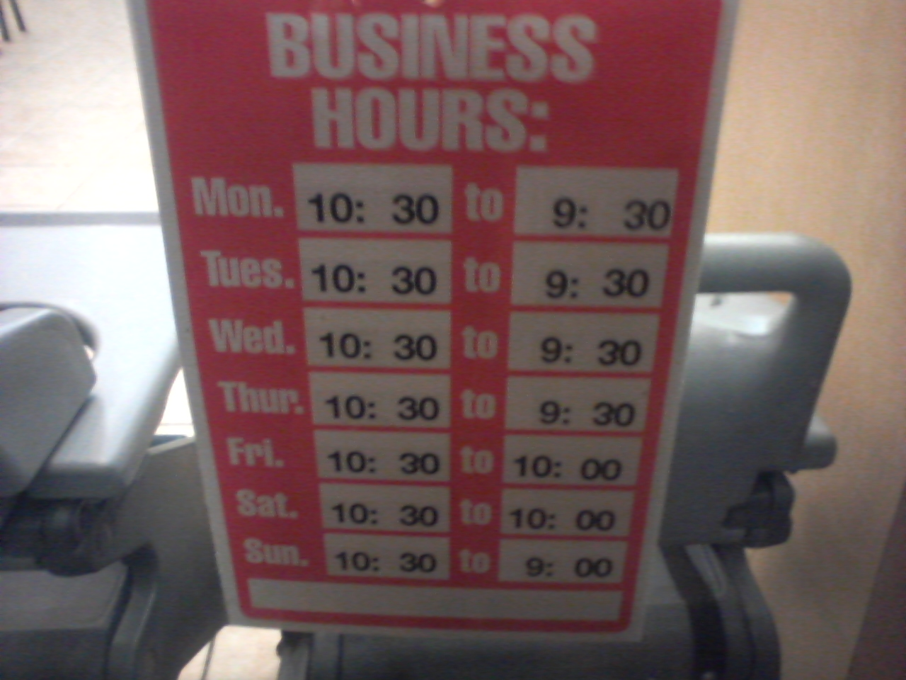 Business hours, Baja Fresh, Germantown, Maryland, August 2016